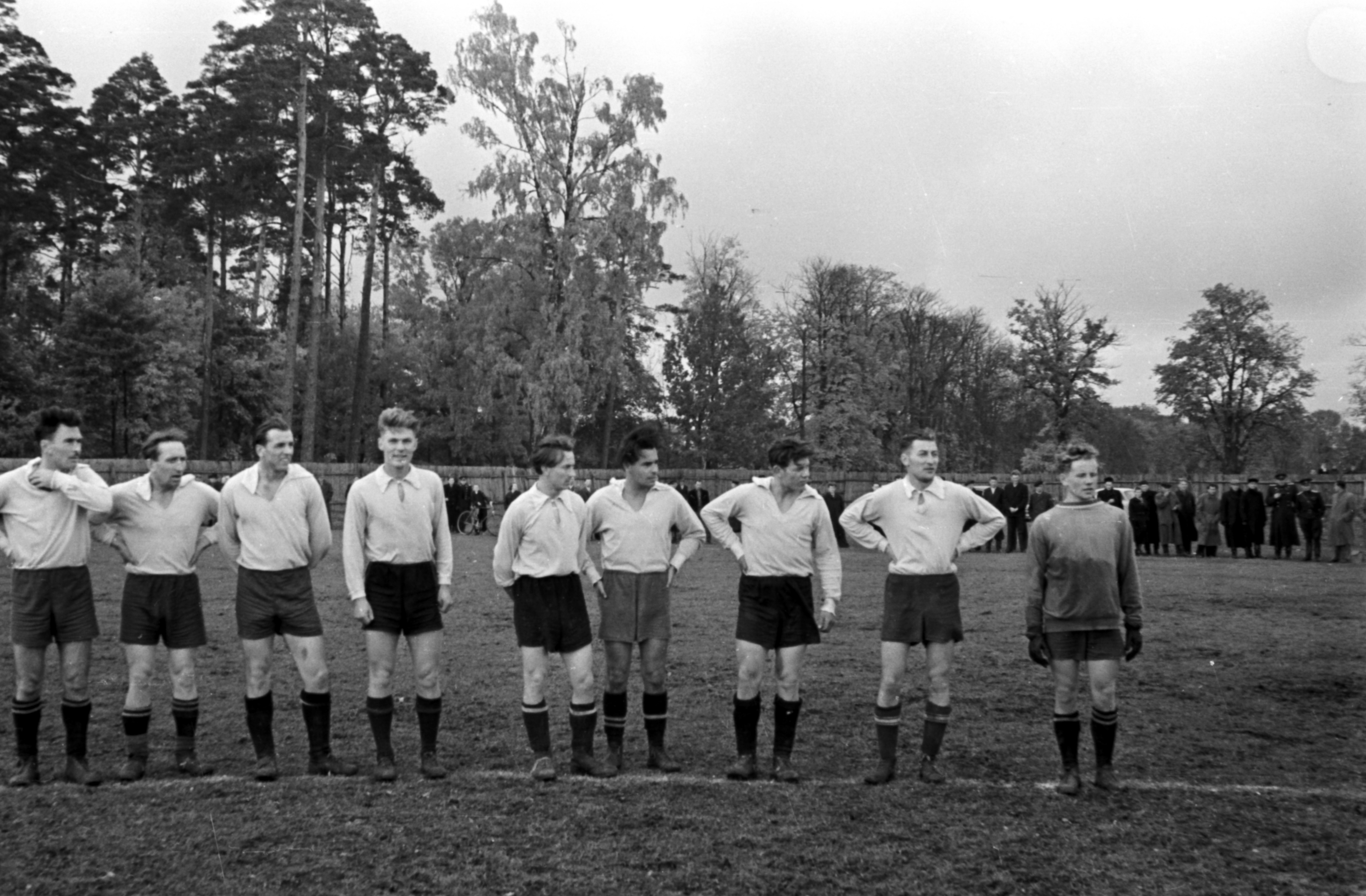 Football team Spartakas, Vilnius in Kretinga 1958, LithuaniaLietuvių: Vilniaus Spartakas futbolo komanda 1958 m. Kretingoje, Lietuva